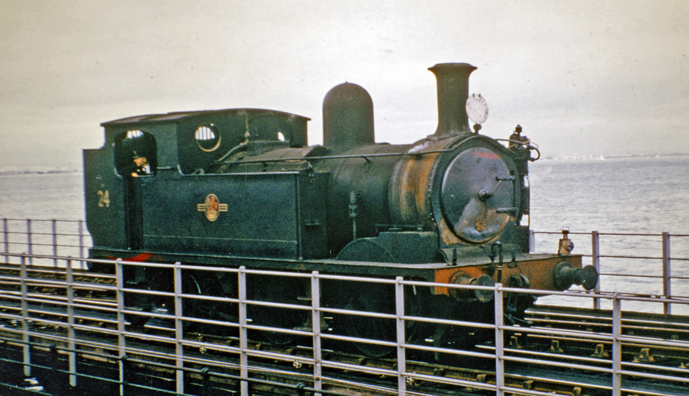 Ex-LSW 0-4-4T on Ryde Pier. View eastward: ex-Isle of Wight Railway Ryde Pier Head - Ryde Esplanade etc. line. Ex-LSW Adams O2 class 0-4-4T No. W24 'Calbourne' (built 12/1891 as No. 209, sent to IoW 4/25, withdrawn 3/67) is running light engine to the Pier Head.